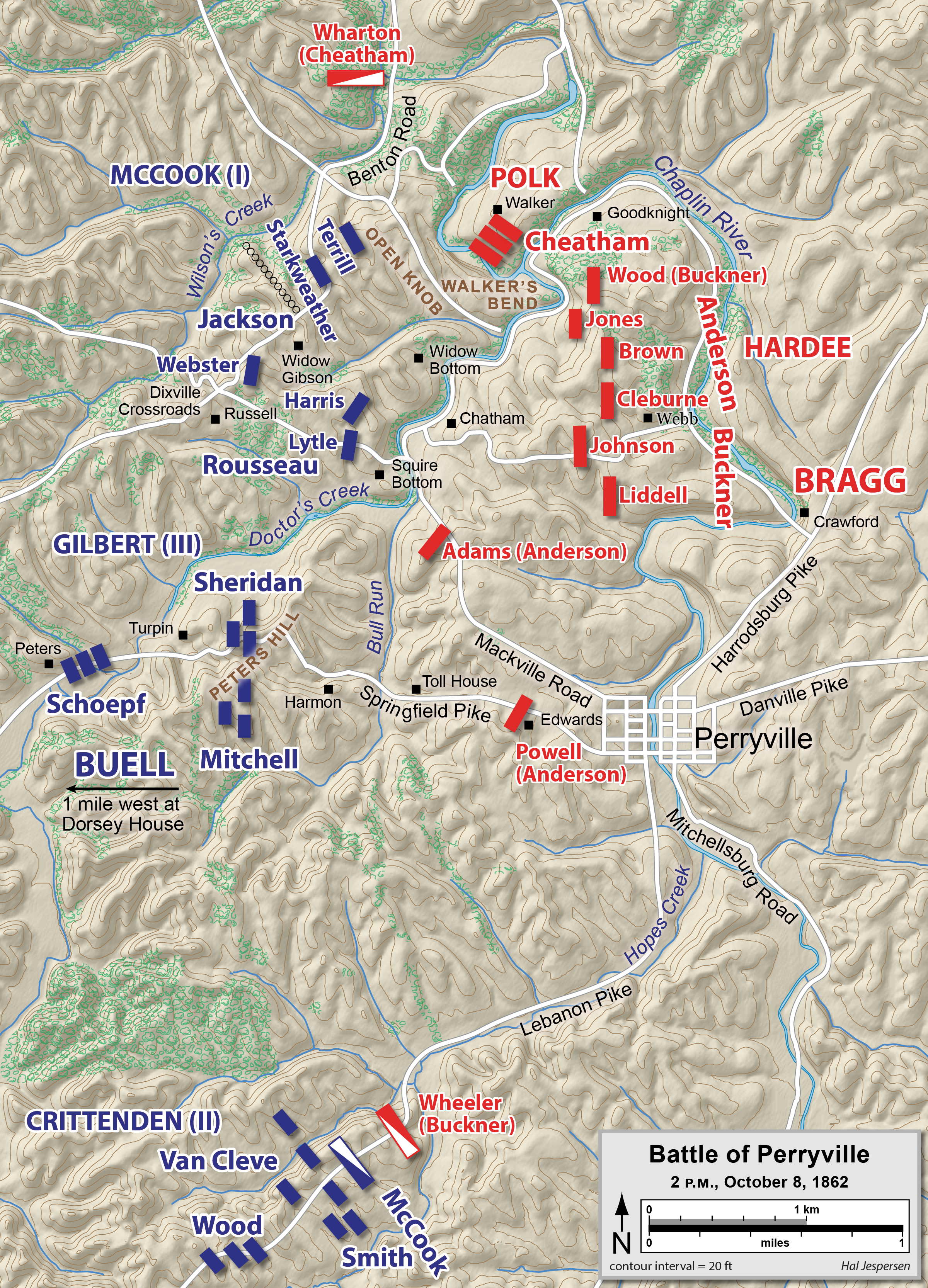 Map of the Battle of Perryville of the American Civil War, drawn in Adobe Illustrator CC by Hal Jespersen. Graphic source file is available at